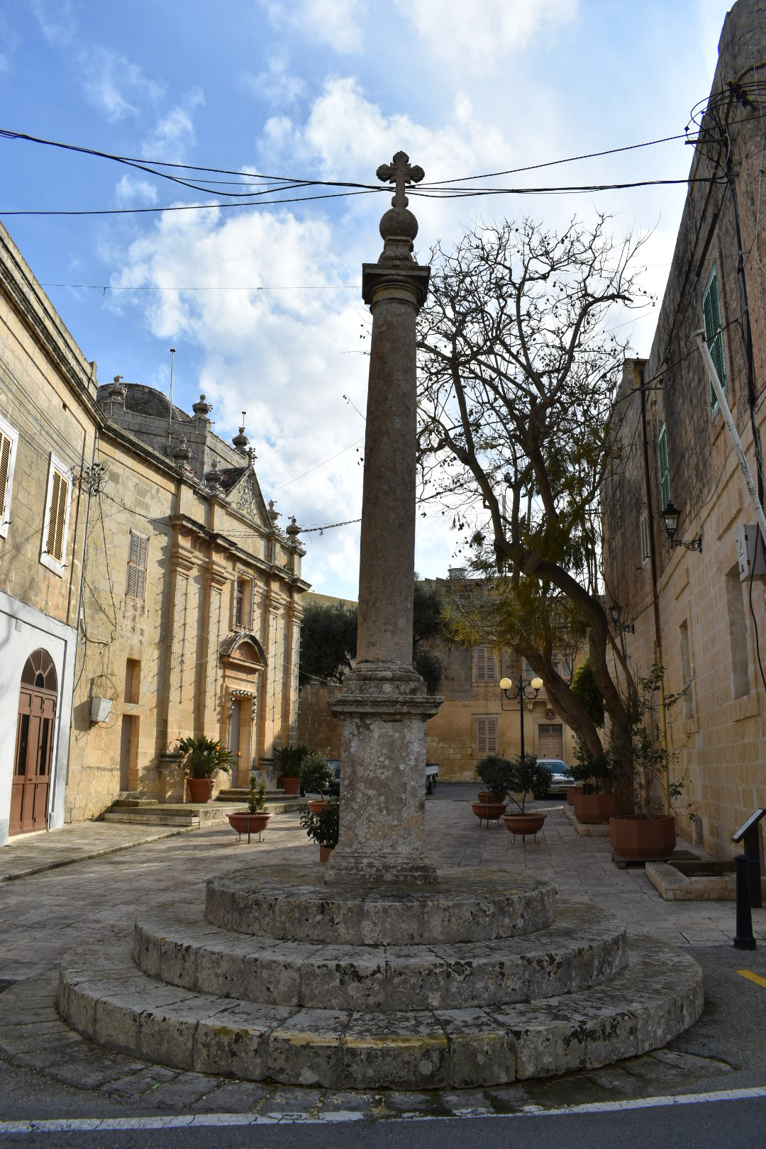 Dejma cross and the chapel of St Mary This media is about Maltese cultural property with inventory number 01887.